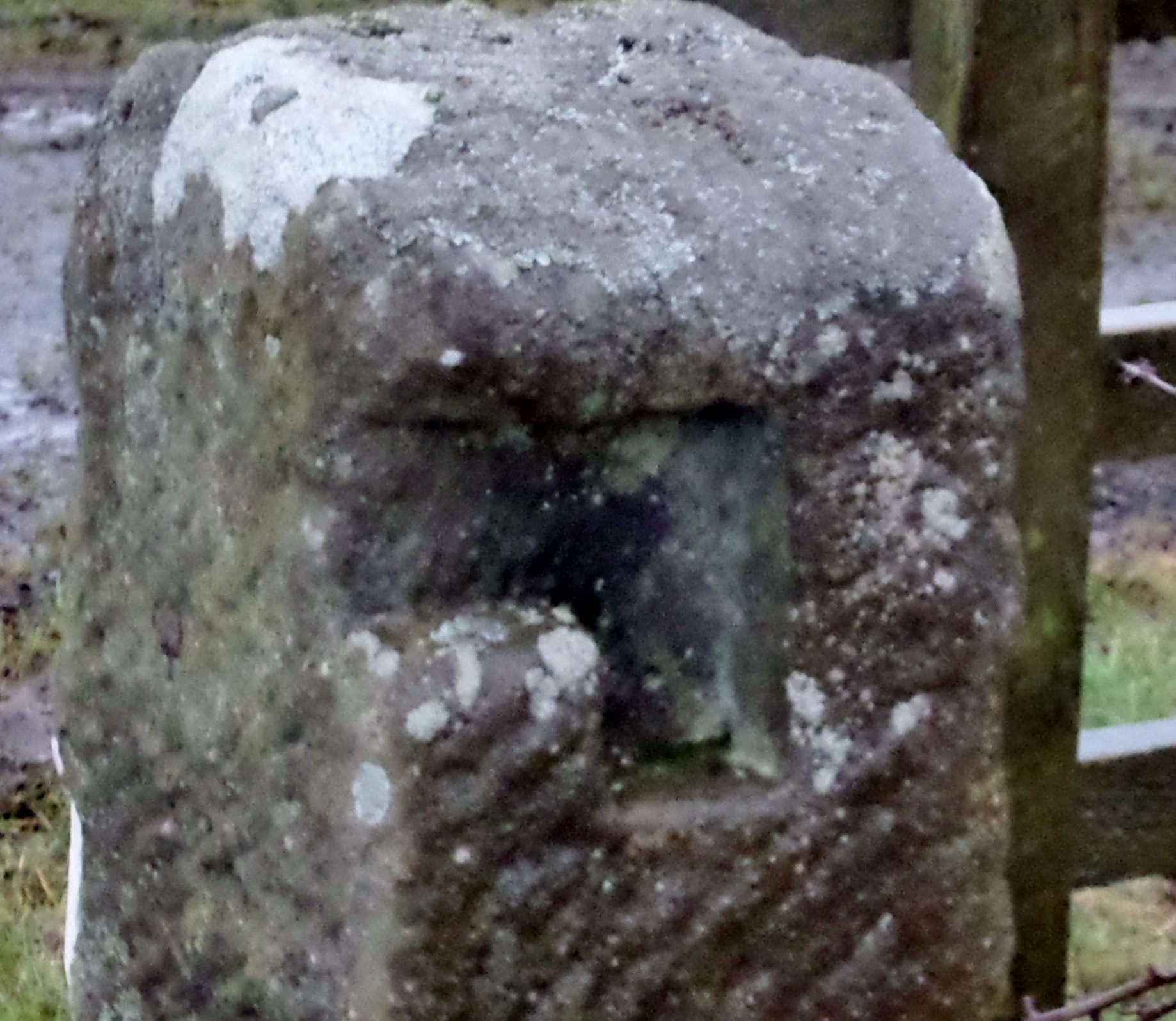 Detail of 'L' shaped sockets on dressed sandstone Slip Gate pier, Wester Kittochside, East Kilbride, Scotland.